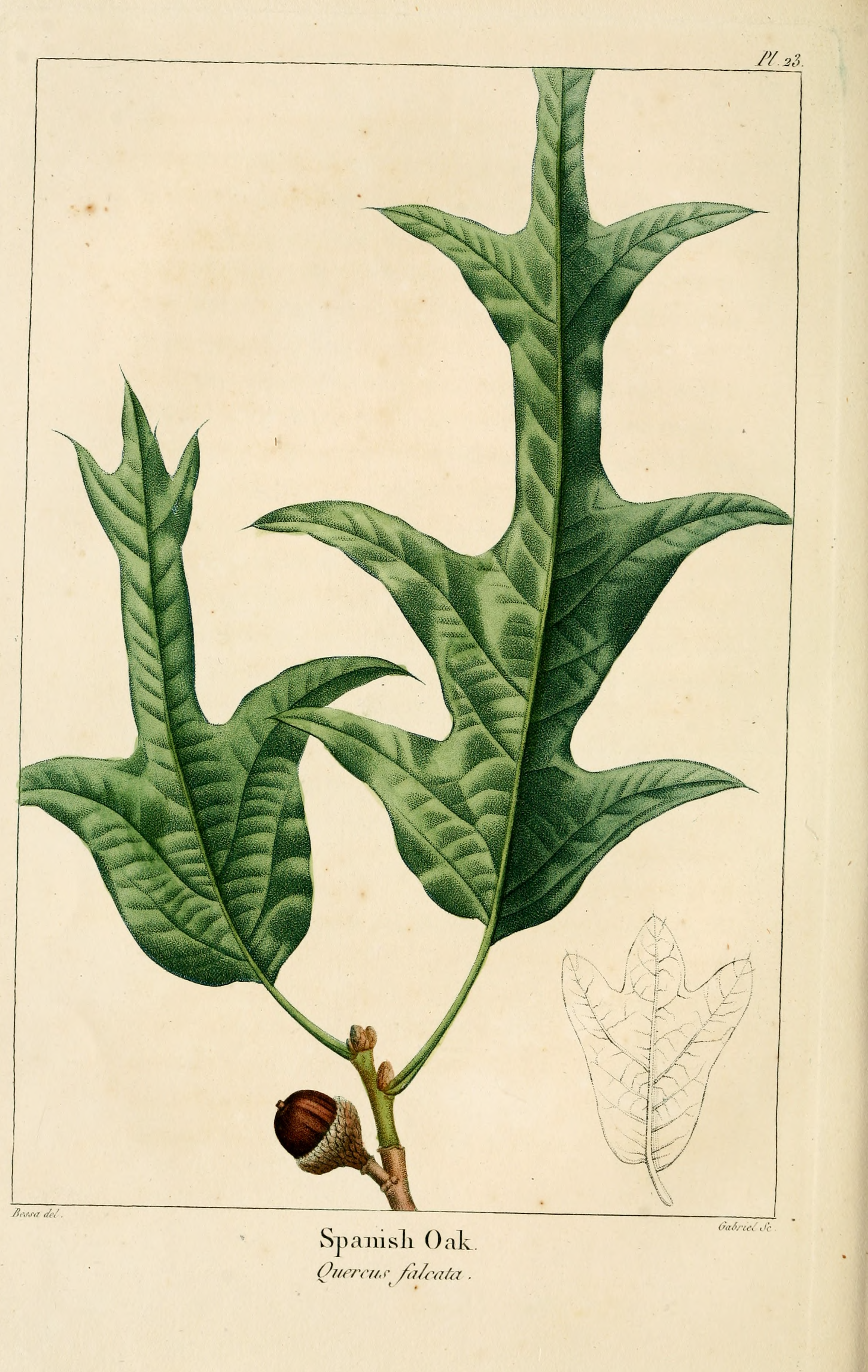 Quercus falcata